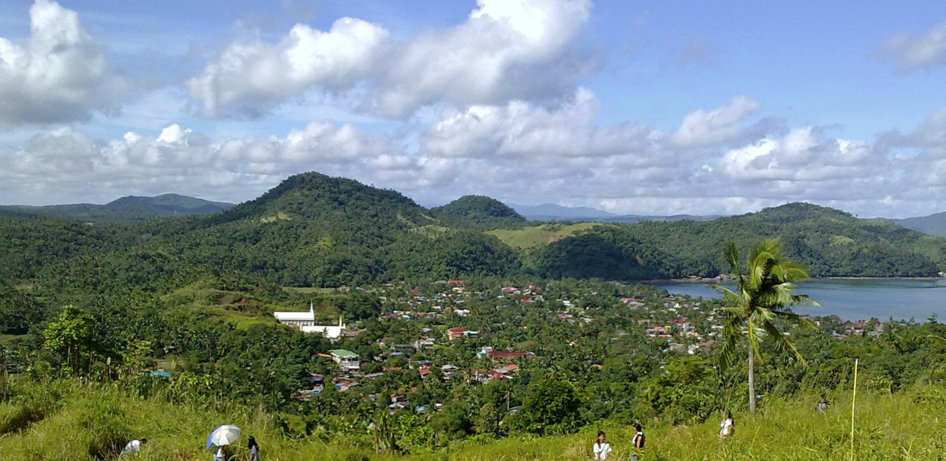 Uptown Jose Panganiban